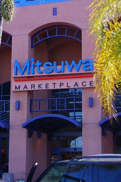 Mitsuwa in San Diego